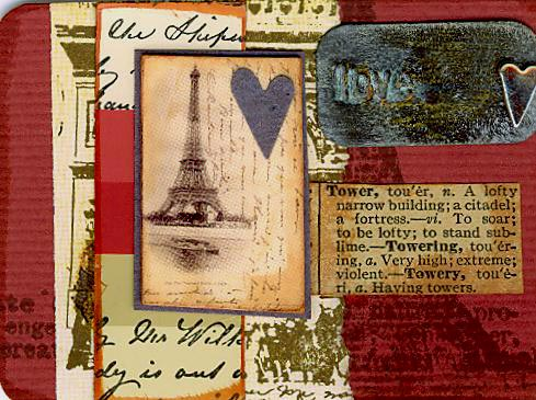 ATC tower of love